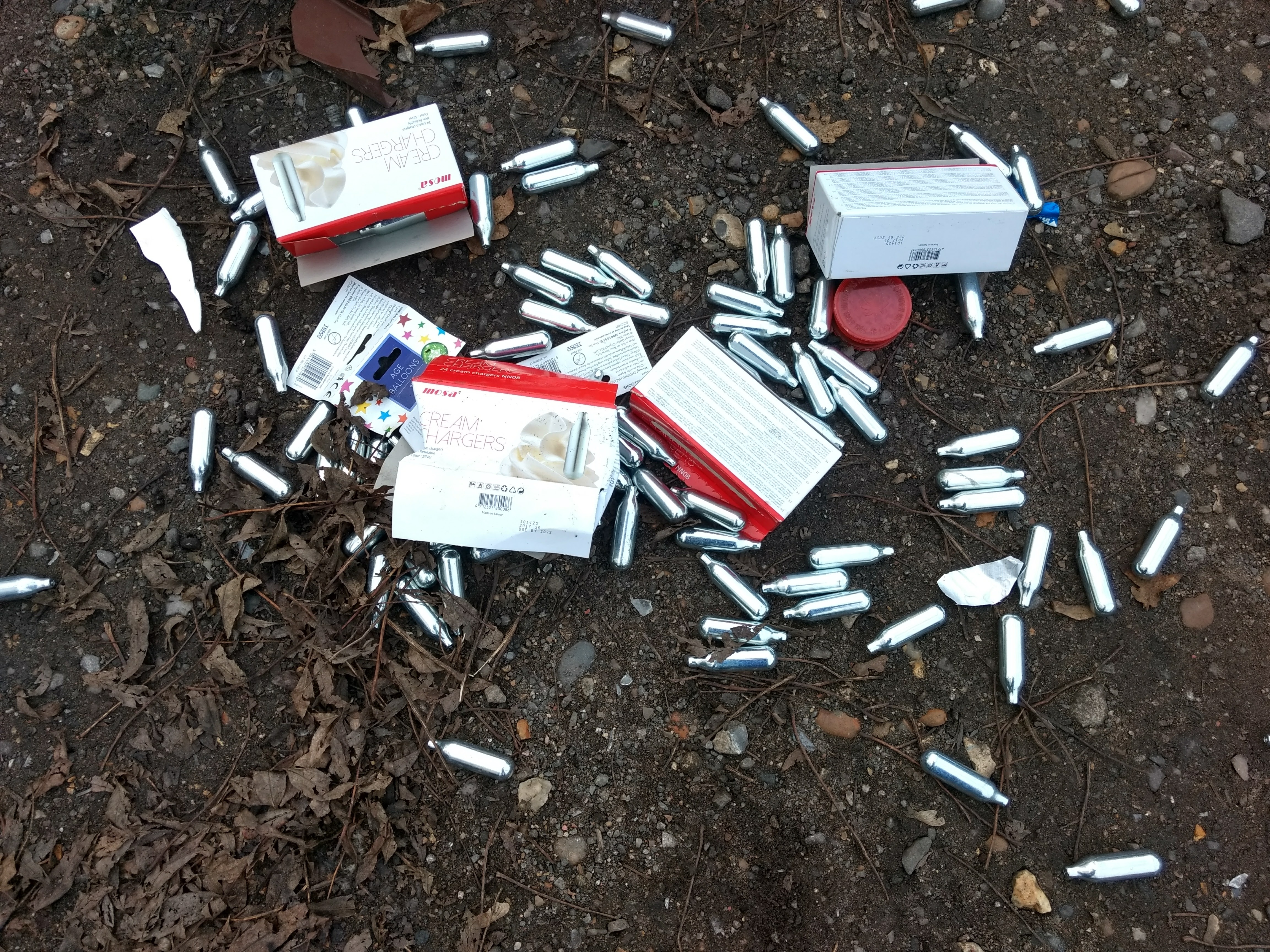 Mosa cream chargers fly-tipped at Bakers Hill car park.jpg